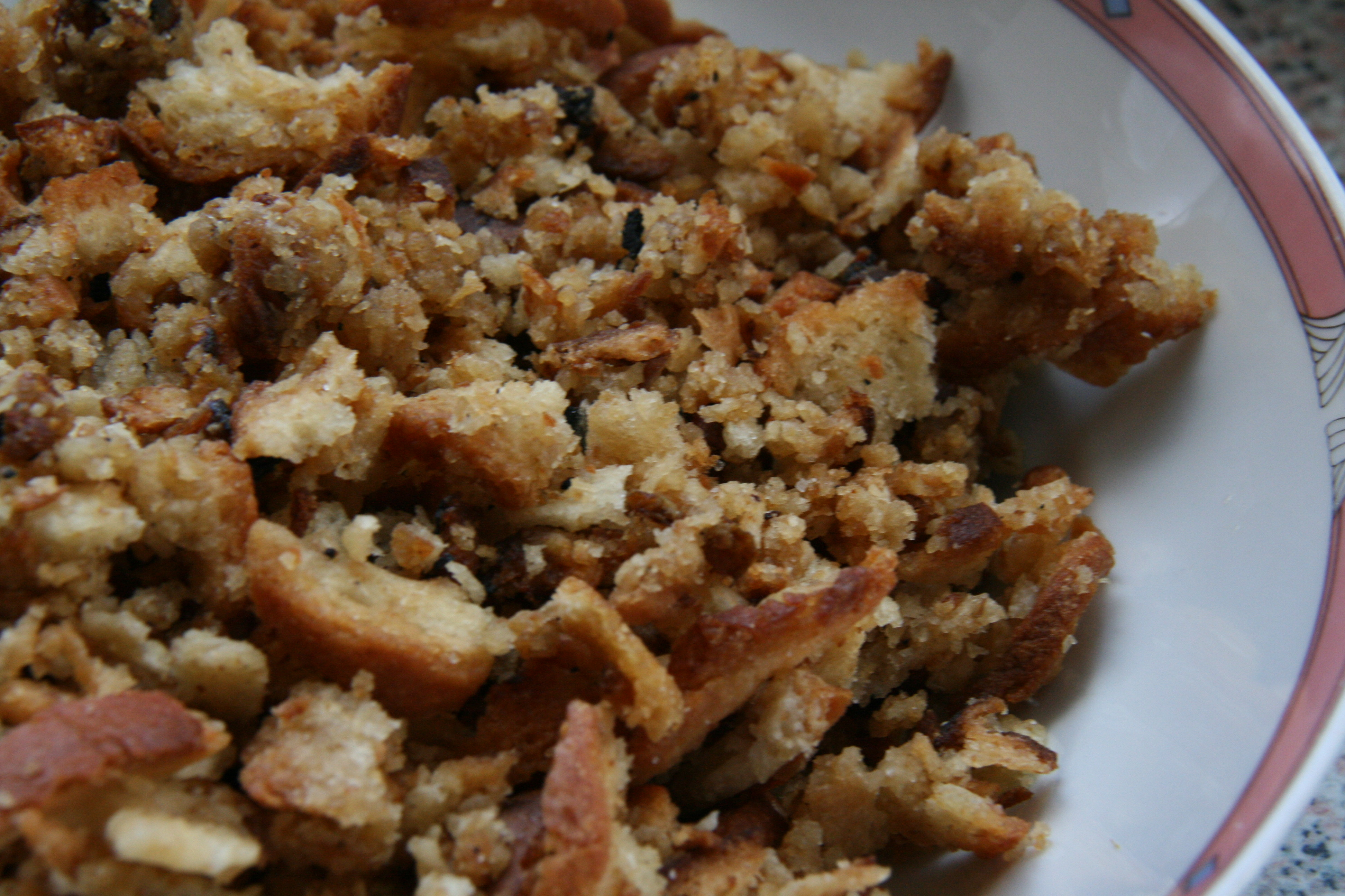 Turriyones - Torrillones (Pobladura de Aliste) - Zamora (cortesy of Victoriano P.S.)